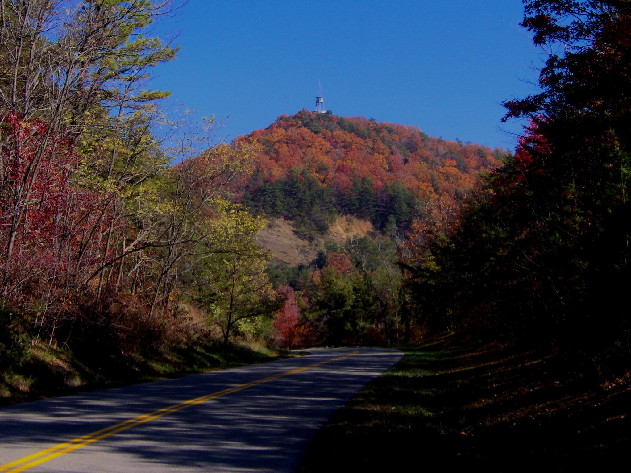 Foothills Parkway approaching Look Rock atop the western flank of Chilhowee Mountain in Blount County, Tennessee (Southeastern U.S.). Look Rock is crowned by an observation tower.